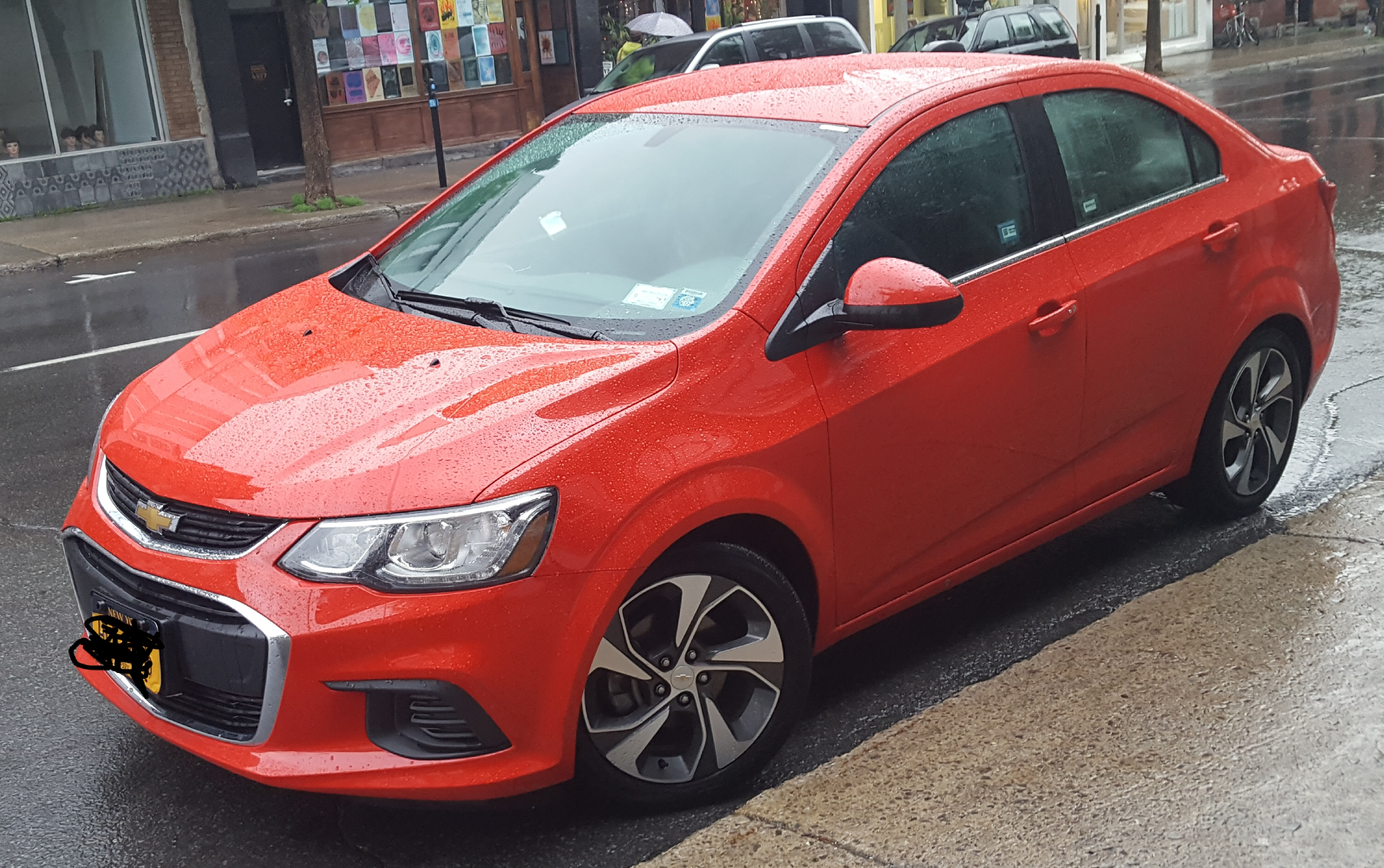 2017 Chevrolet Sonic photographed in Montréal, Québec, Canada.